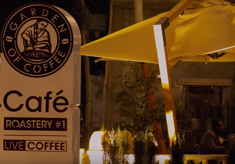 Agnes Edihan Marquis interviews SoleRebels CEO Bethlehem Tilahun Alemu for NdaniTV on 19 June 2017